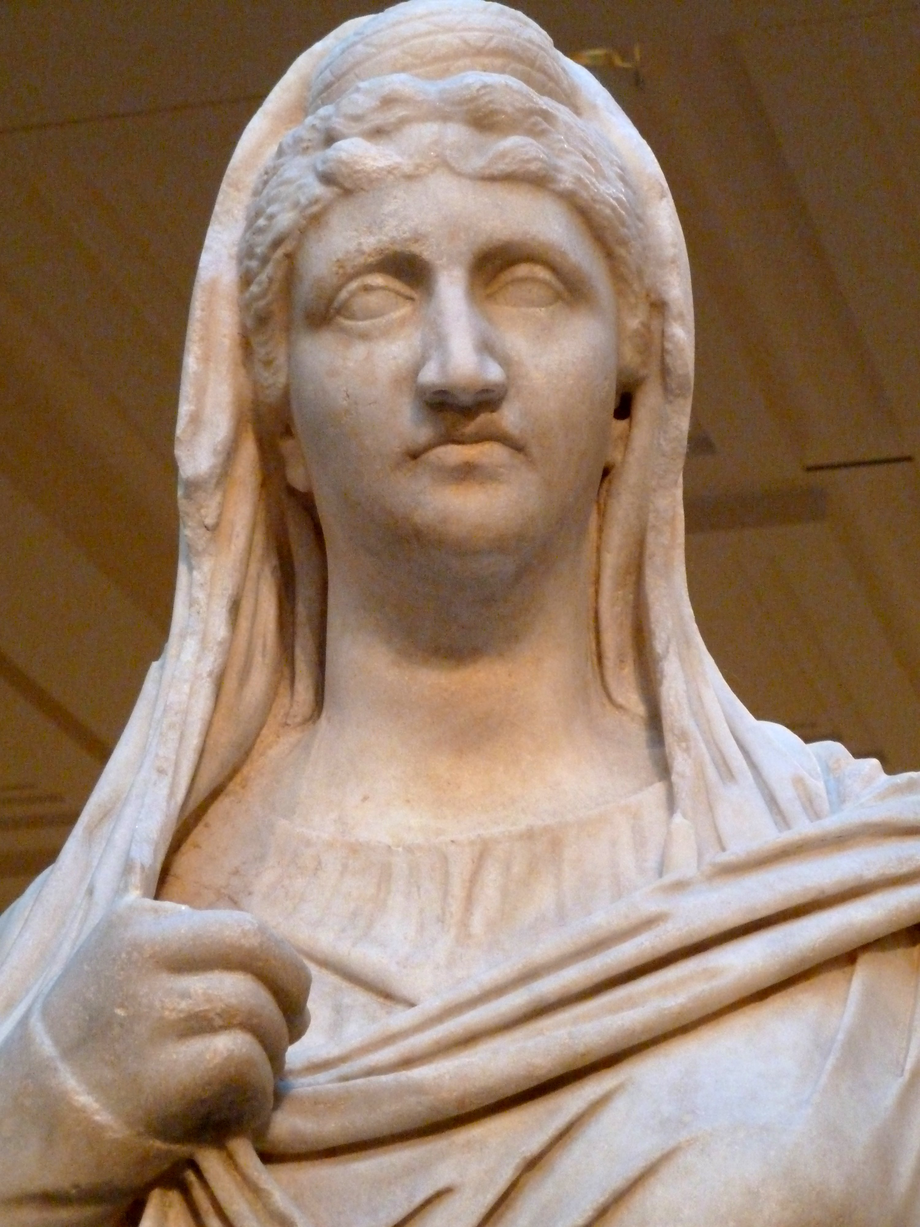 Faustina the Elder (Roman, Asia Minor, AD 140-160).